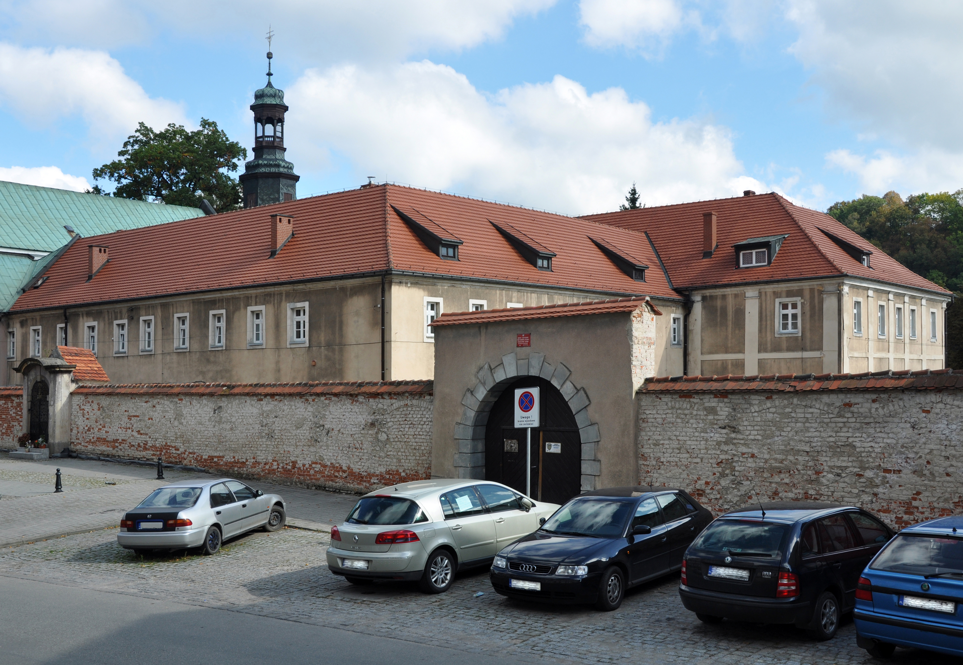 Poor Clares of Perpetual Adoration monastery in Kłodzko